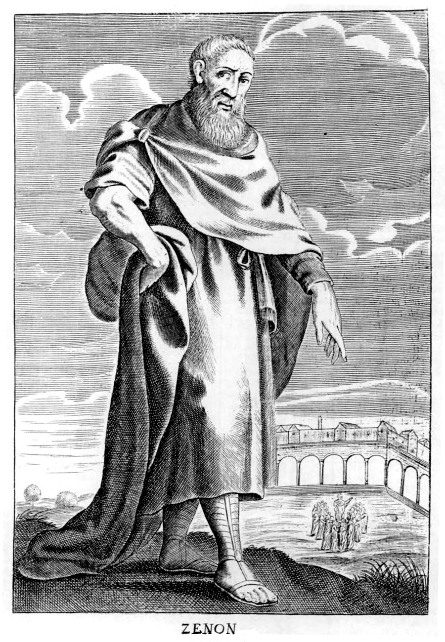 Zeno of Citium, ancient Greek Stoic philosopher. From Thomas Stanley, (1655), The history of philosophy: containing the lives, opinions, actions and Discourses of the Philosophers of every Sect, illustrated with effigies of divers of them.